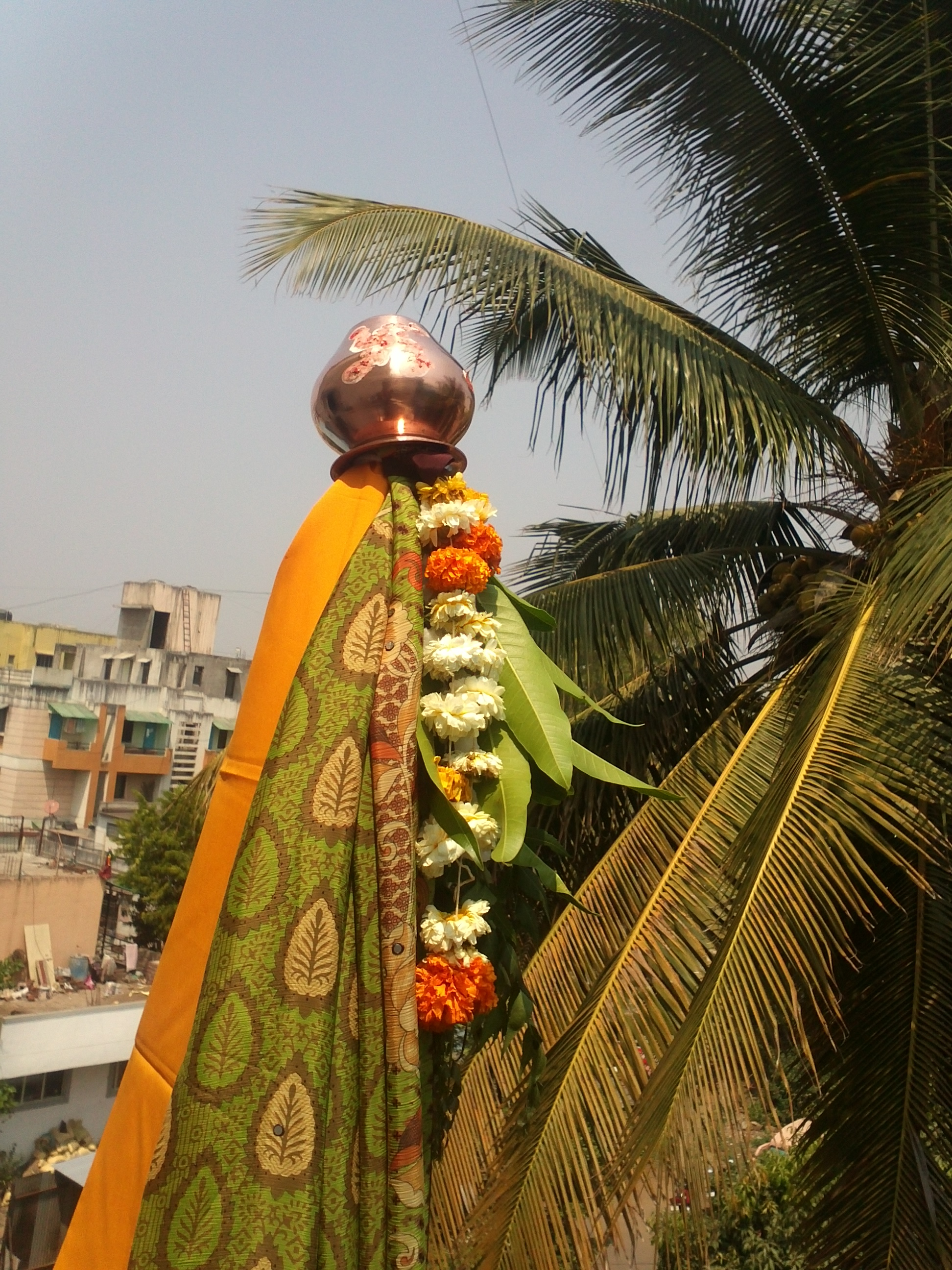 Clicked at Pune.